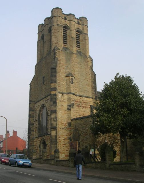 St Paul's Church - Queens Road, Halifax